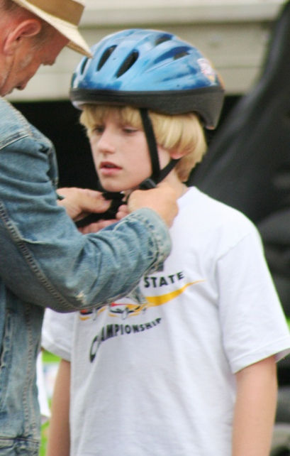 Nathan Gamble at the set of his movie 25 Hill in Baruth Raceway located in Cleveland last July 31, 2010.